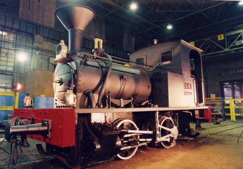 Teng-Yung locomotive photo by lin(tra)(1999.01) scan by winertai(2006.03 scan) 騰雲號於台北機廠修理情況 1999.01拍攝 2006.02重新掃描